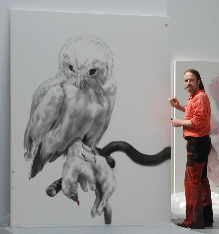 Jiří Straka profil image